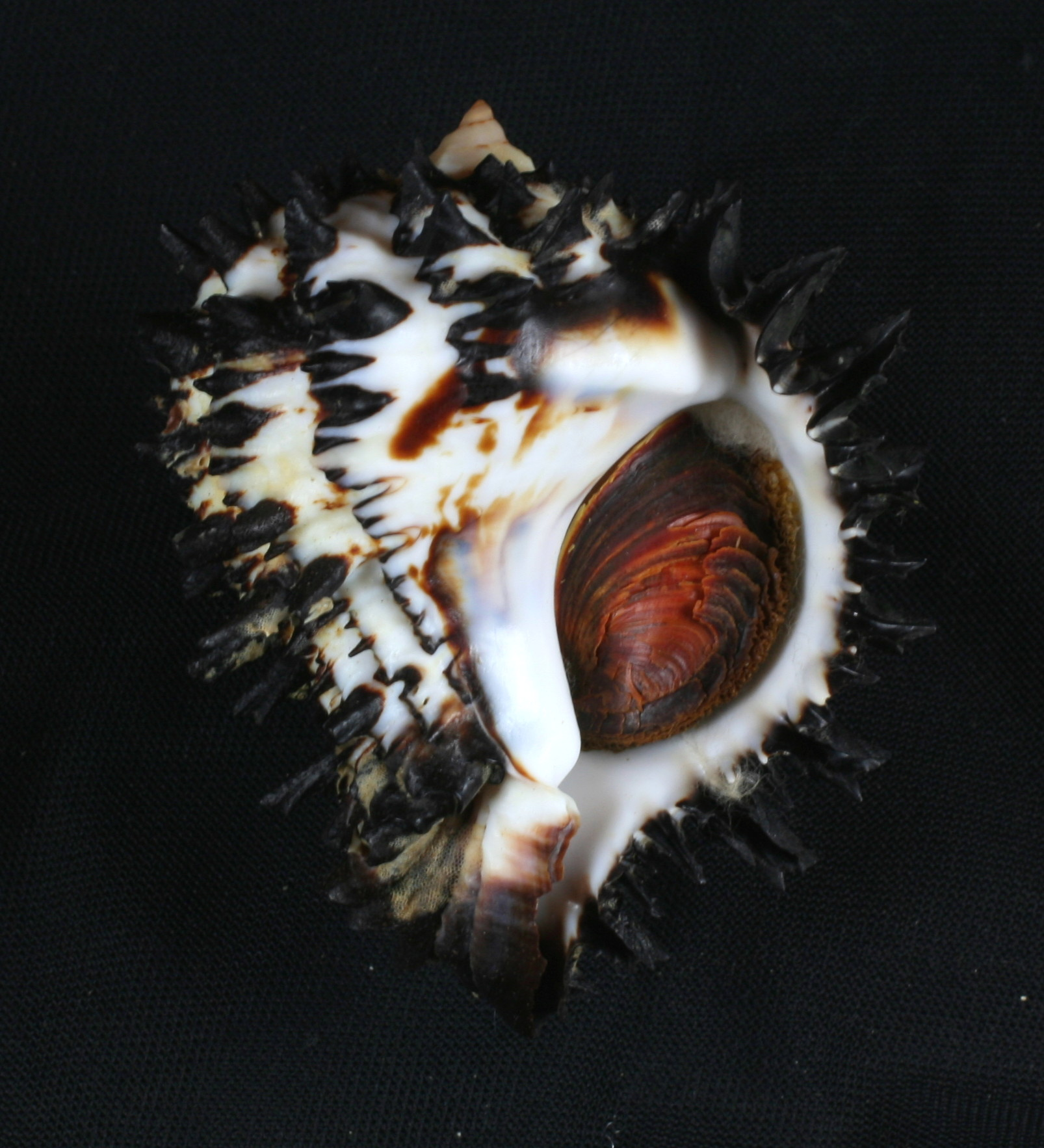 Muricidae: Hexaplex ambiguus (Reeve, 1845)